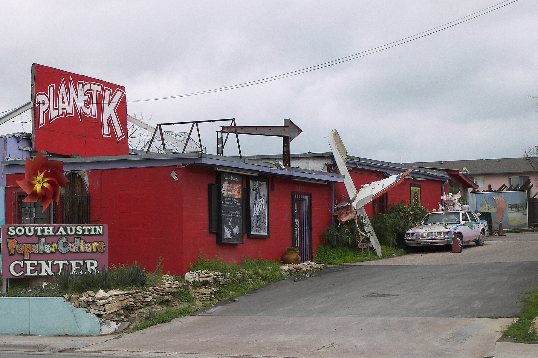 The South Austin Popular Culture Center located in Austin, Texas, United States.